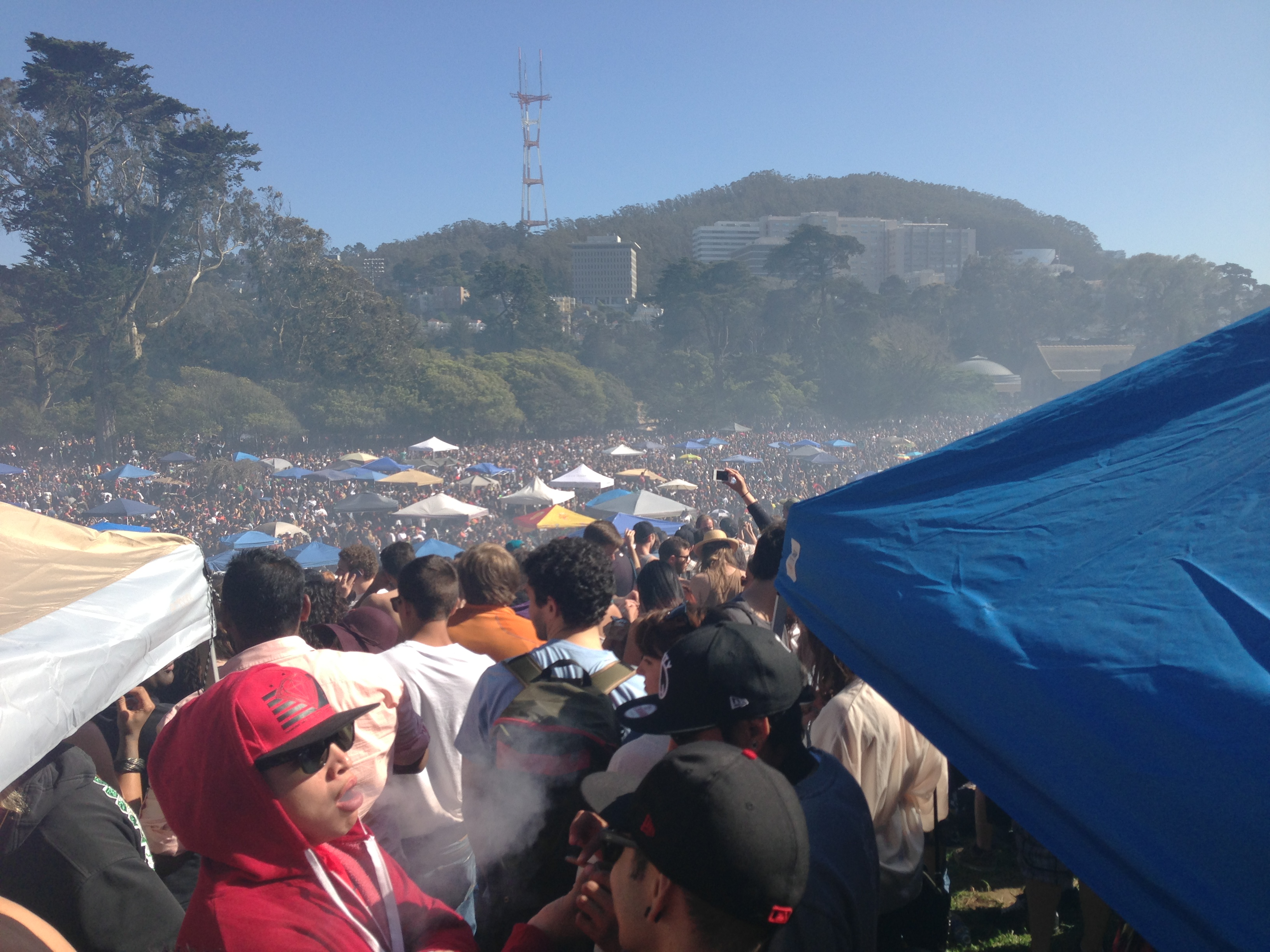 Thousands illegally consume cannabis in Golden Gate Park to celebrate 420 and end prohibition.